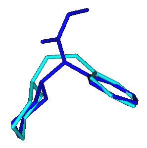 Methylphenidate 3D overlaid with 1-(2-Phenylethyl)piperazine showing the basic 3- point pharmacophore shared between them and compound 3C-PEP